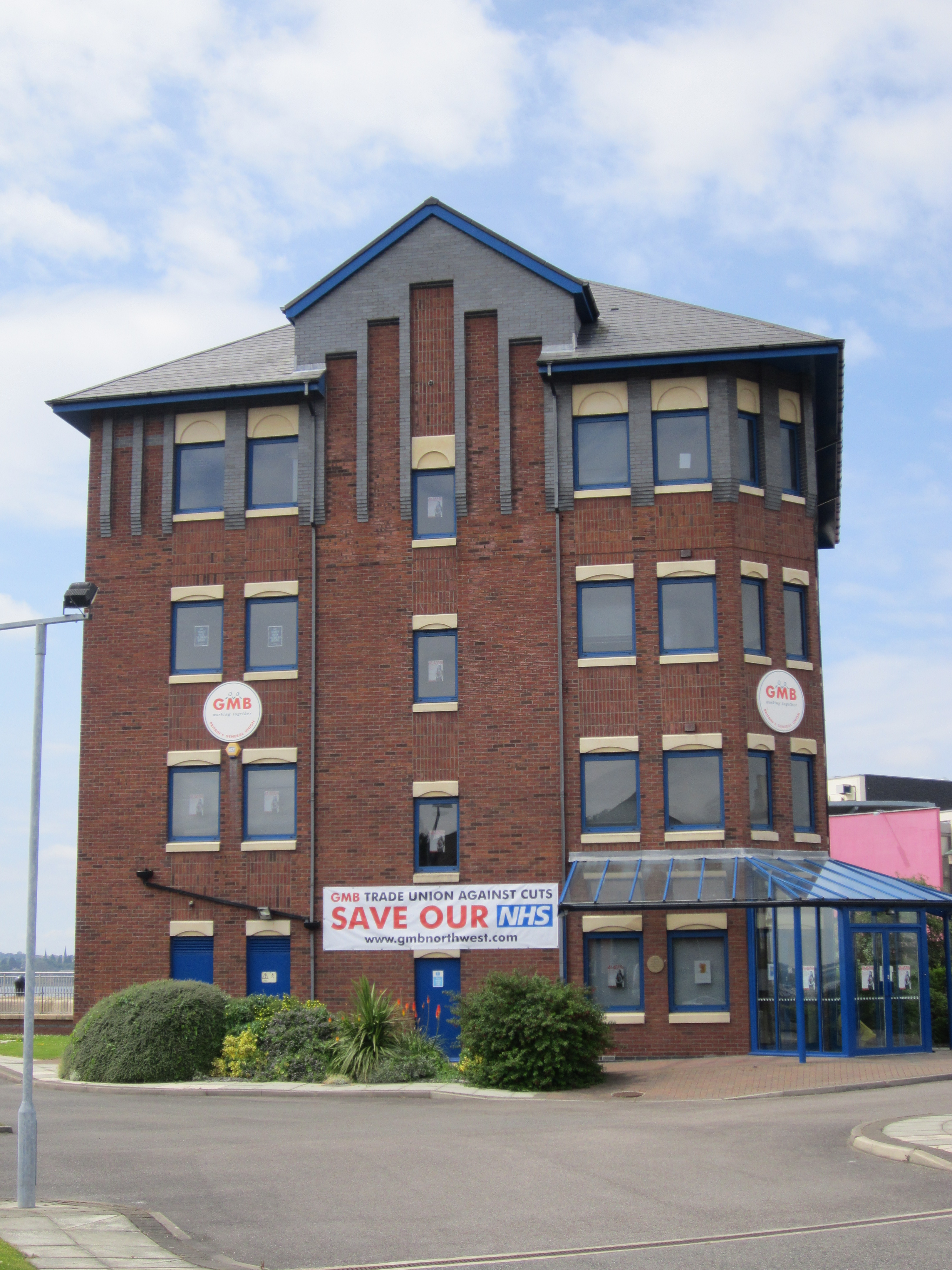 GMB trade union building, Riverside Drive, Liverpool.